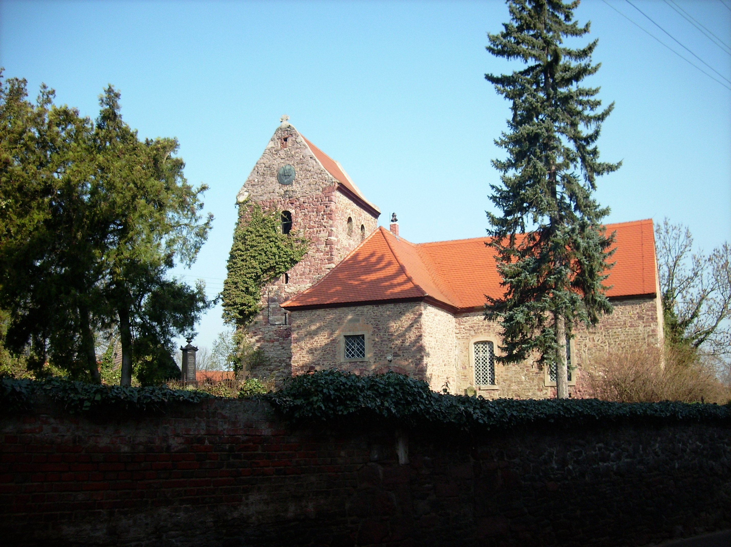 Church of the village of Dornitz (Wettin-Löbejün, district of Saalekreis, Saxony-Anhalt)